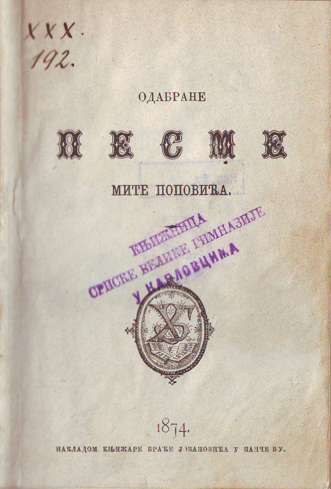 Cover of the poetry collection Odabrane pesme Mite Popovića (1874). Srpski (latinica): Naslovna strana zbirke pesama Odabrane pesme Mite Popovića (1874).